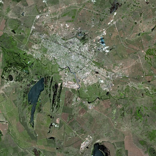 Nur-Sultan by SPOT Satellite